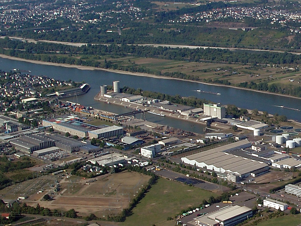 Aerial view of the Rhine-Habour of Koblenz